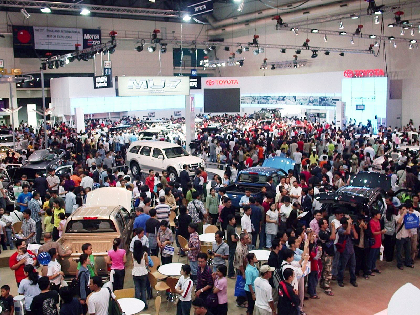 The 21st Thailand International Motor Expo, Bangkok 2004